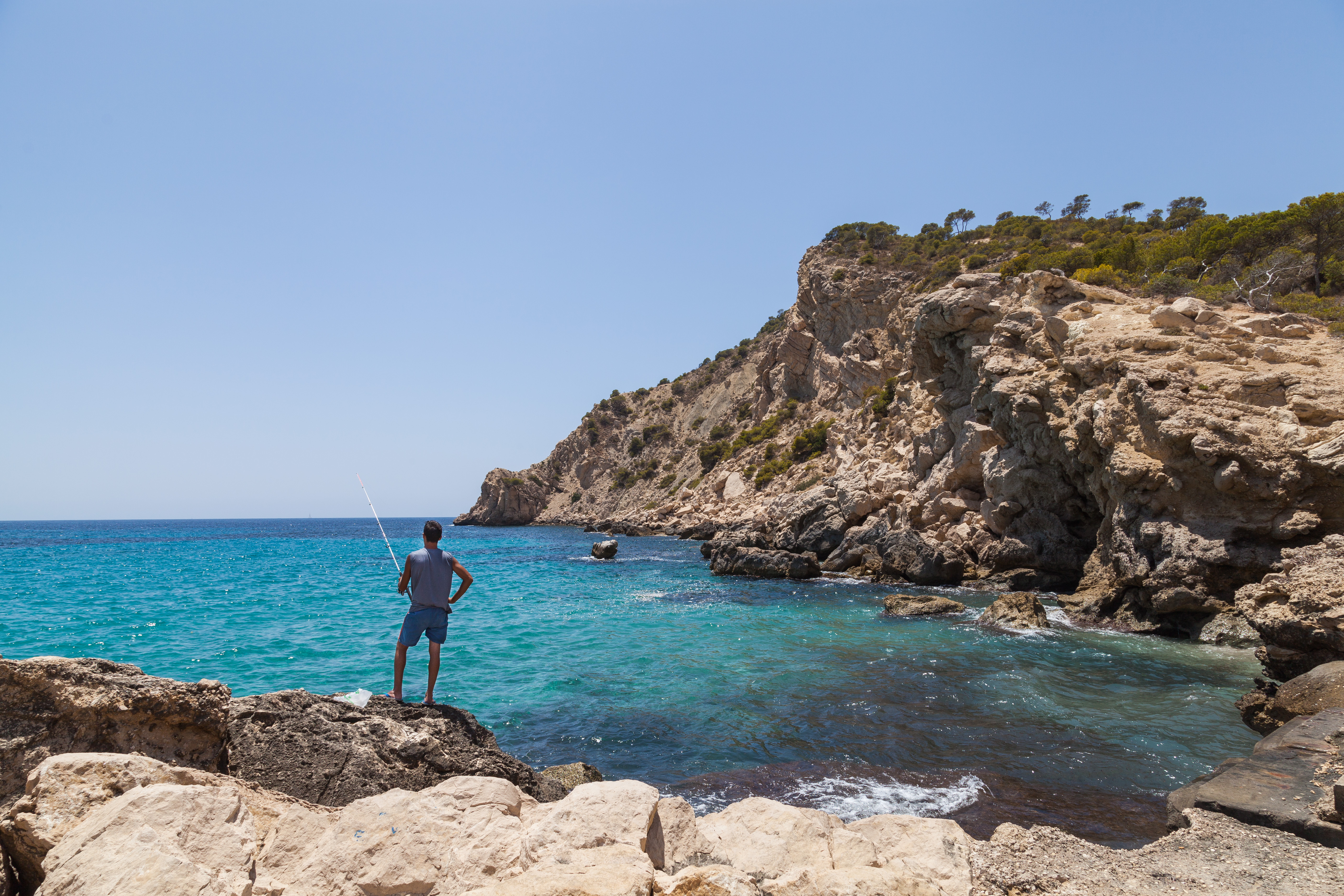 Finestrat Beach, Finestrat, Spain